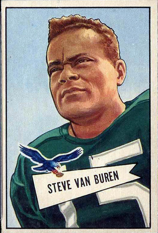 National Football League player Steve Van Buren on a 1952 Bowman Gum football trading card with the Philadelphia Eagles